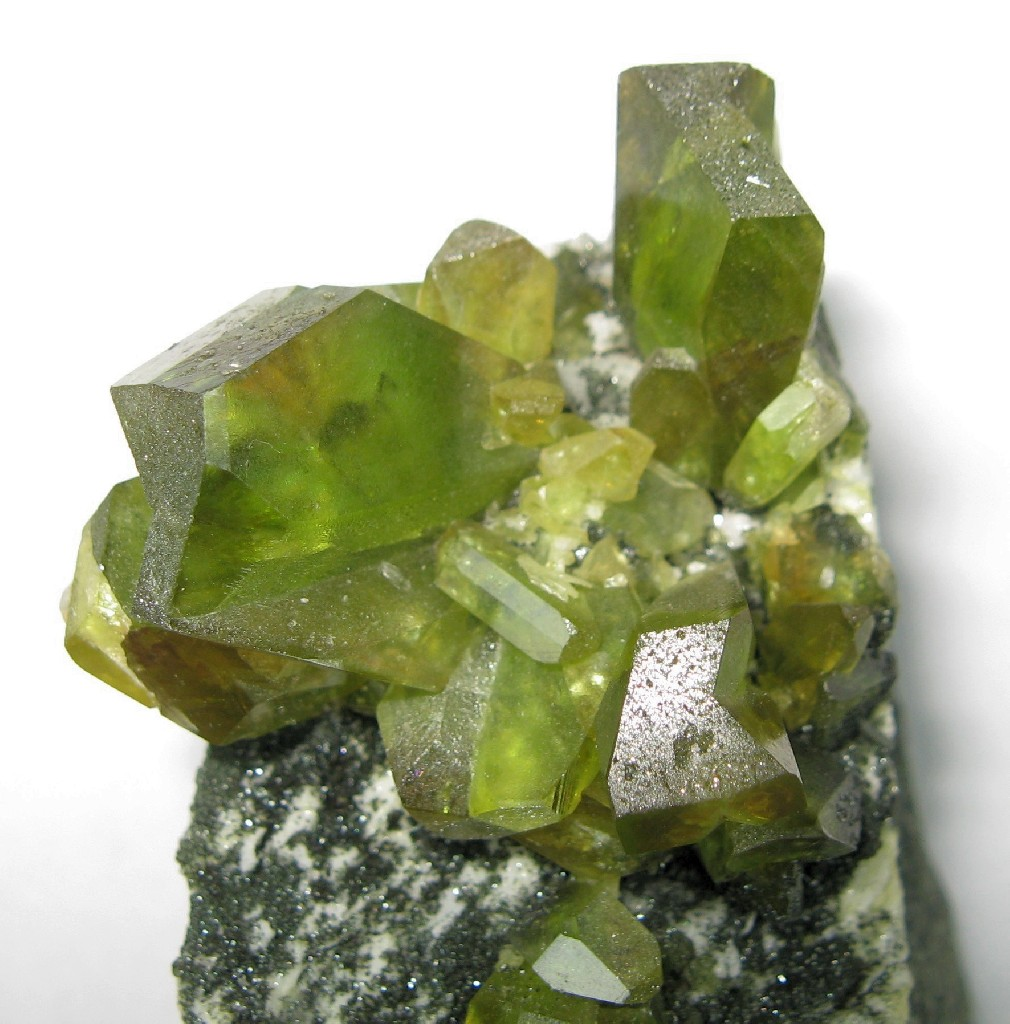 Titanite - Locality: Tormiq valley (Tormic; Tormik; Tormig; Turmiq), Haramosh Mountains, Skardu District, Baltistan, Northern Areas, Pakistan - Size: 75 mm x 50 mm x 28 mm overall. Main crystal: 18 mm long, 6 mm thick.